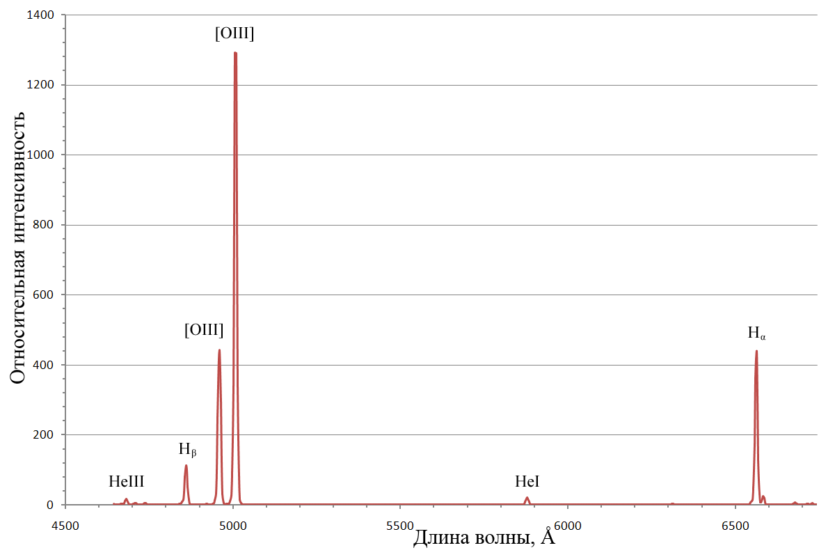 The spectrum of the Saturn Nebula (NGC 7009) in range 4644 — 6745 Å. Left part — helium line (HeIII, 4686 Å), hydrogen line (Hβ, 4861 Å) and two forbidden lines of oxygen ([OIII], 4959 Å and [OIII], 5007 Å), right — helium line (HeI, 5876 Å) and hydrogen line (Hα, 6563 Å).